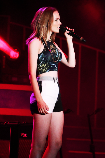 Bridgit Mendler performing at Busch Gardens in Tampa, Florida, in July 5, 2014.